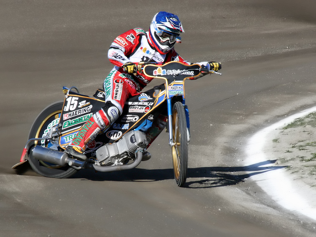 Russian speedway rider Emil Sayfutdinov during match between Polonia Bydgoszcz and Unibax Toruń (April 19, 2009)